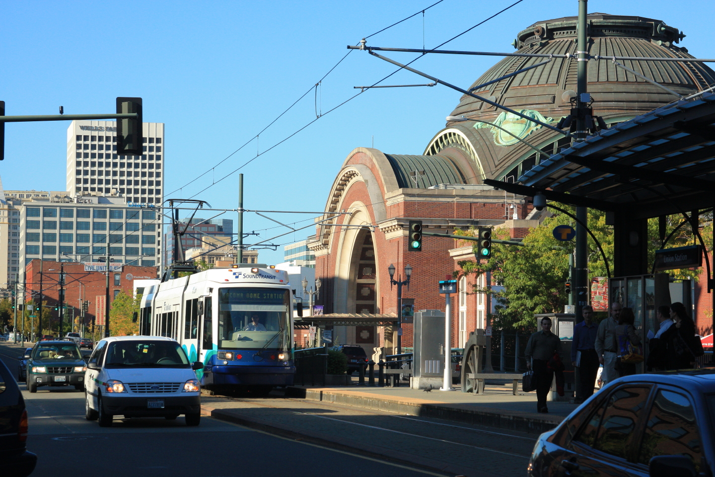 Southbound Tacoma Link car 1001 passes Union Station approaching the Union Station/S 19th stop.